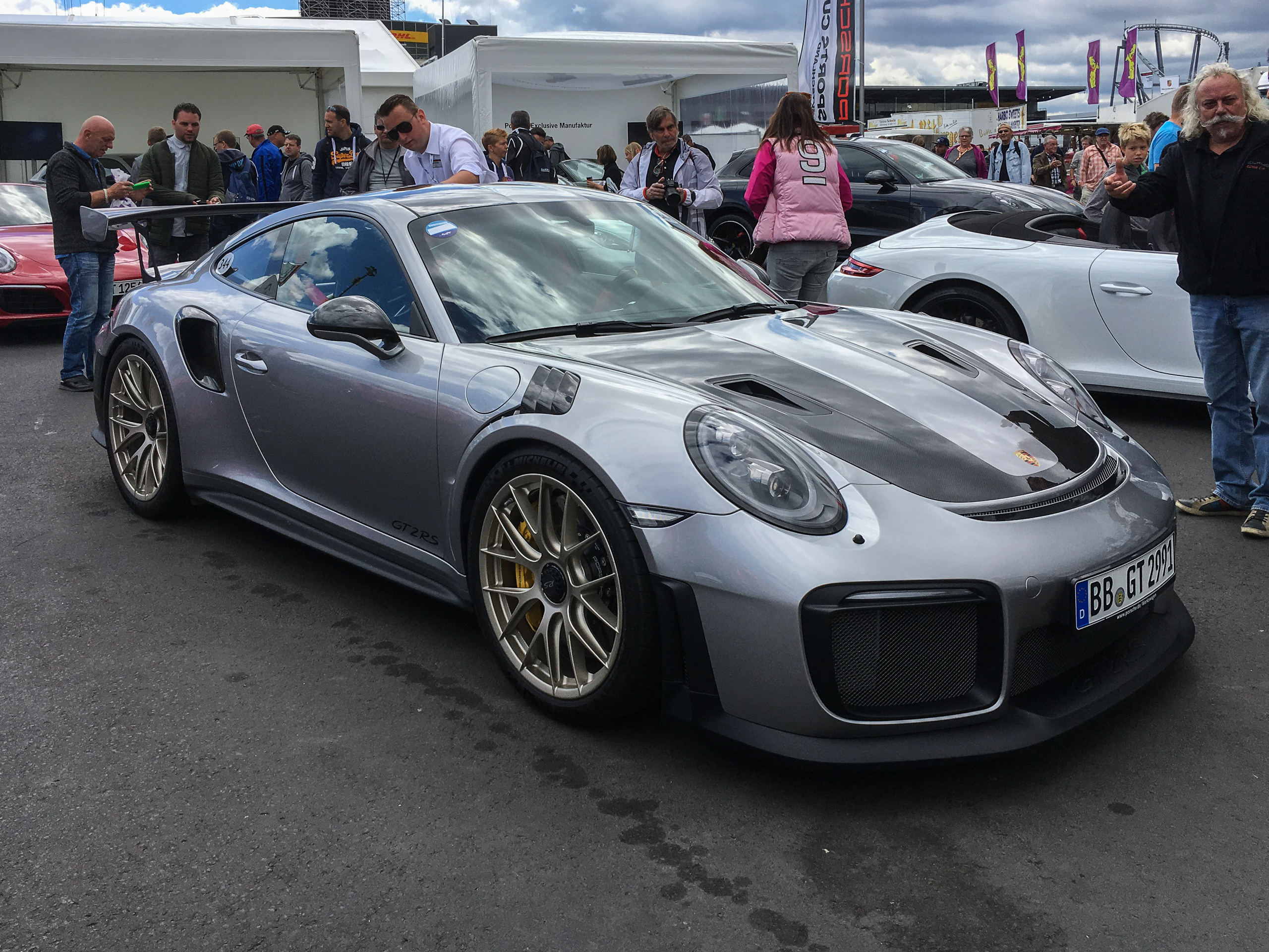 Porsche 911 GT2 RS (Type 991) displayed at the 6 Hours of Nuerburgring (Part of the World Endurance Championship (WEC) 2017)